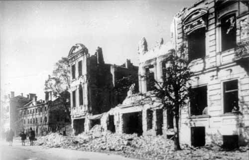 Geležinkelio street in Vilnius